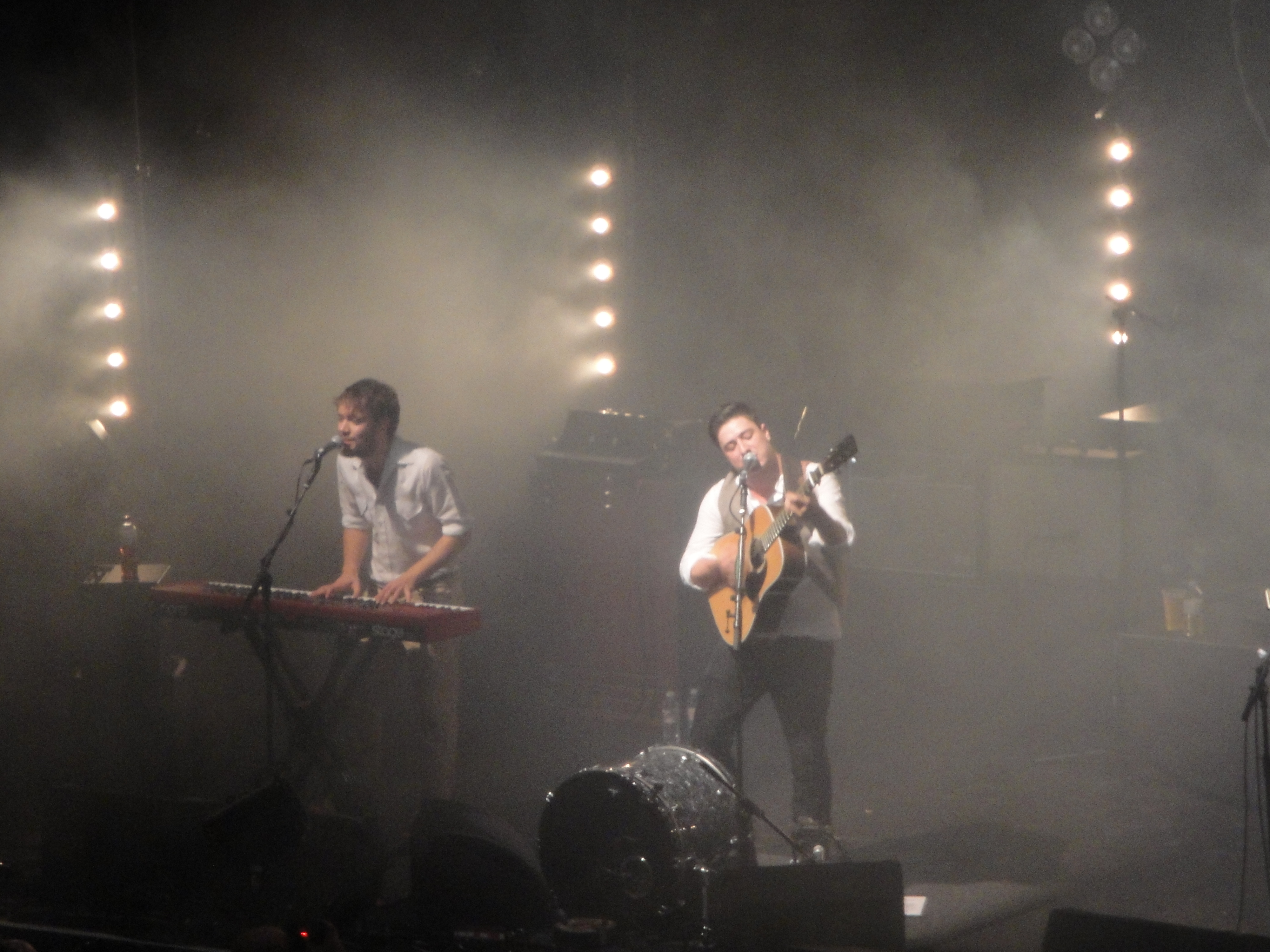 Mumford & Sons, seen during a liver performance at Brighton Dome, Brighton, East Sussex.